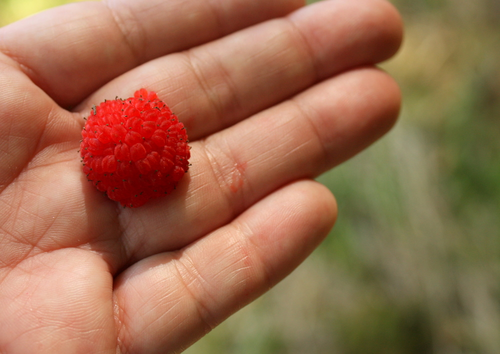 More about thimbleberries for this month's Plant of the Day series on Fresh-Picked Seattle